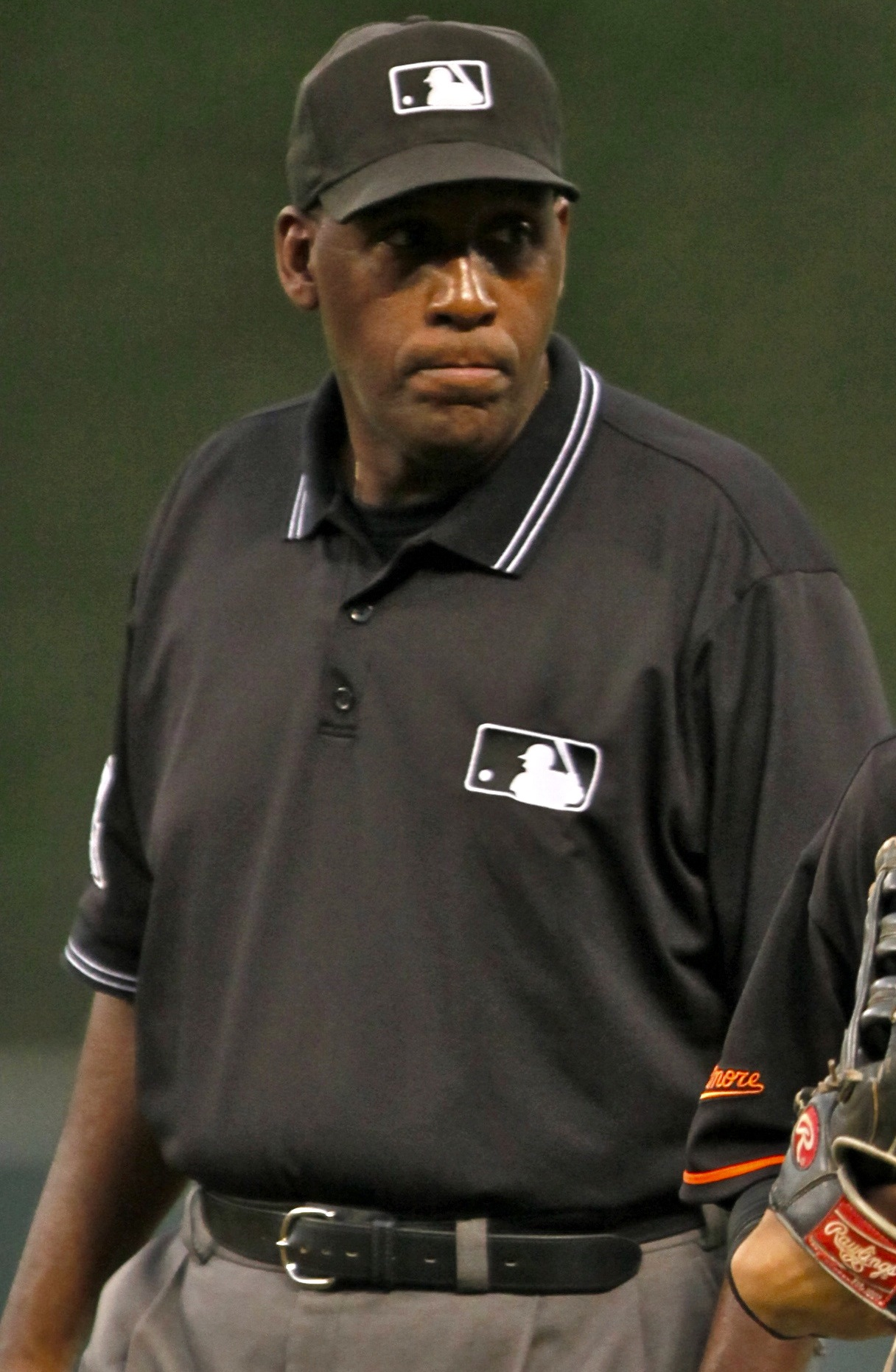 MLB umpire Chuck Meriwether - June 12, 2009..